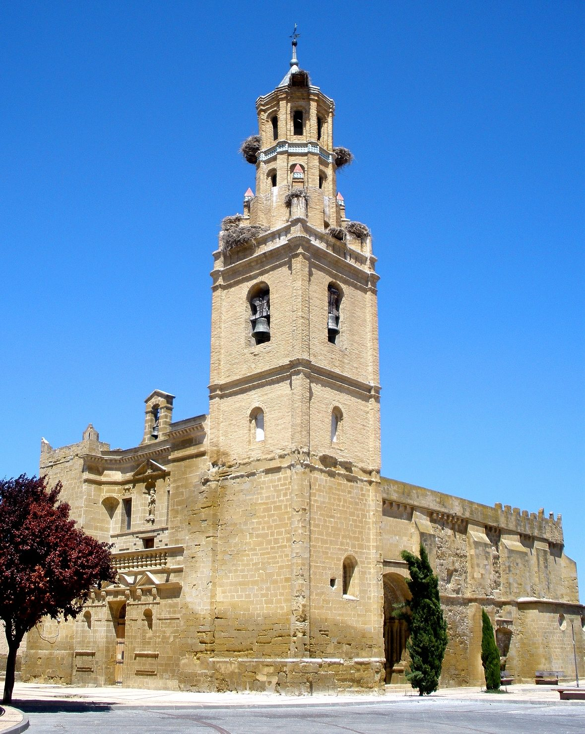 Iglesia de Santa María de la Corona, en Ejea de los Caballeros (Zaragoza, Aragón, España)